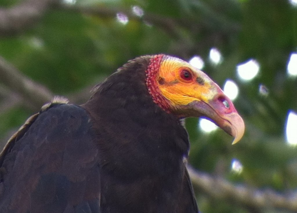 A Lesser Yellow-headed Vulture in Panama.